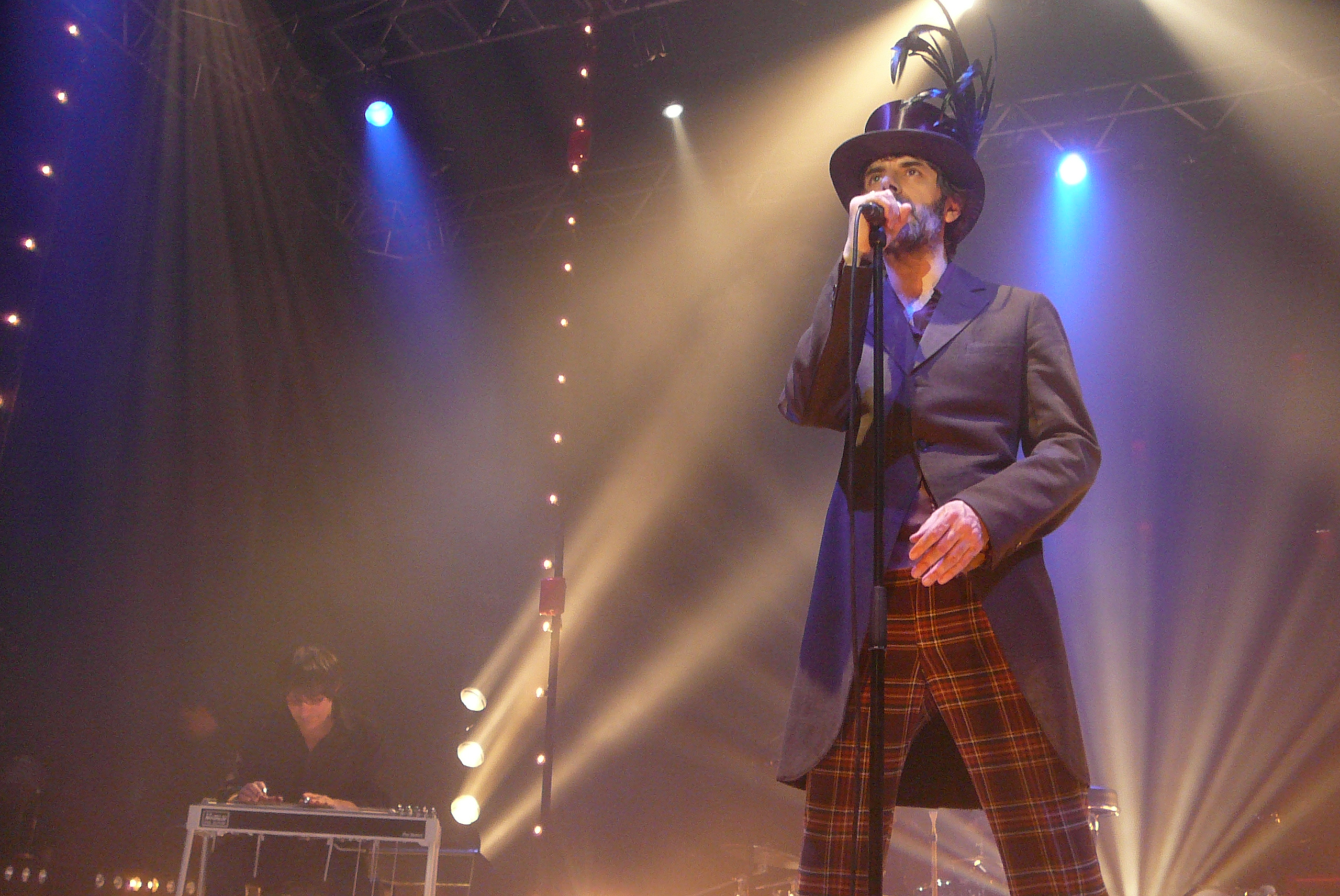 Thomas Fersen in concert in Villeurbanne (Lyon)